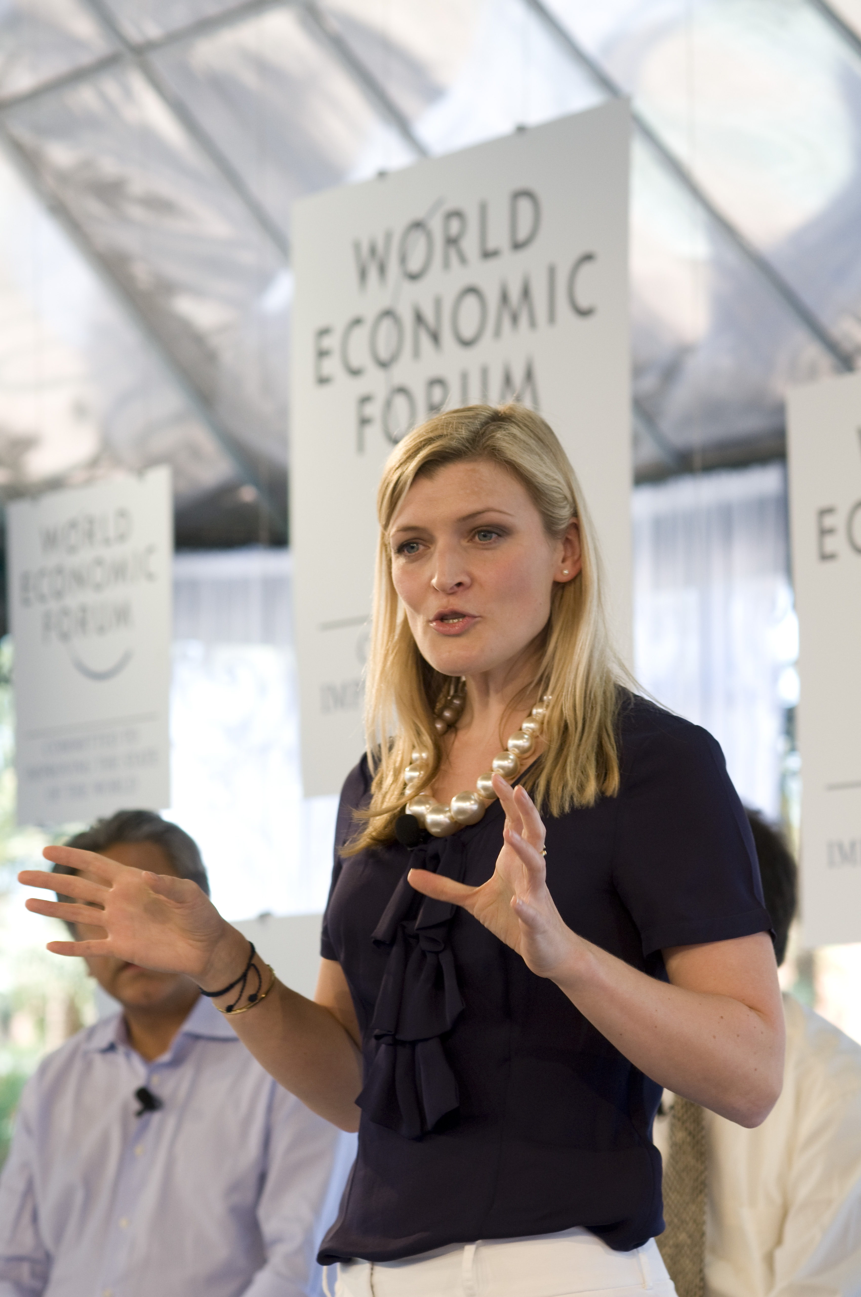 MARRAKECH/MOROCCO, 26OCT10 - Louisa K. Bojesen, Anchor, CNBC, United Kingdom - CNBC Debate: The Case for Global Citzenship - Participants captured during the World Economic Forum on the Middle East and North Africa Marrakech, Morocco, 26 October 2010. Copyright World Economic Forum ( by Alan Keohane/still